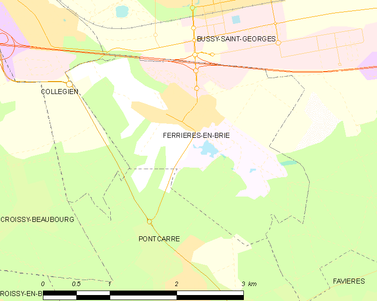 Map of French municipality Ferrières-en-Brie